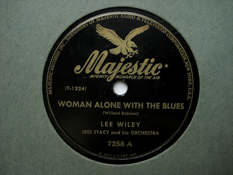 Lee Wiley: Woman alone with the Blues